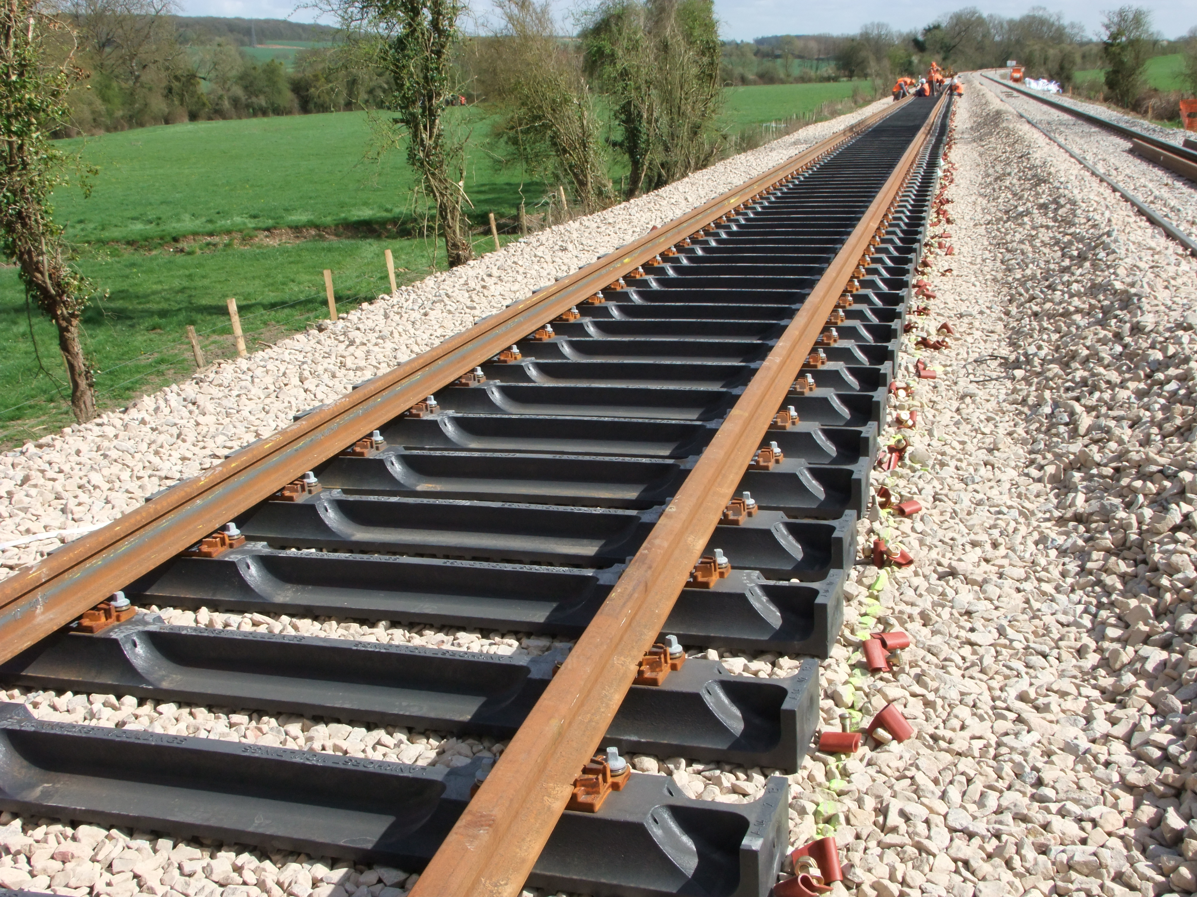 Lankhorst Engineered Products KLP Hybrid Plastic Sleeper installed on a test track.